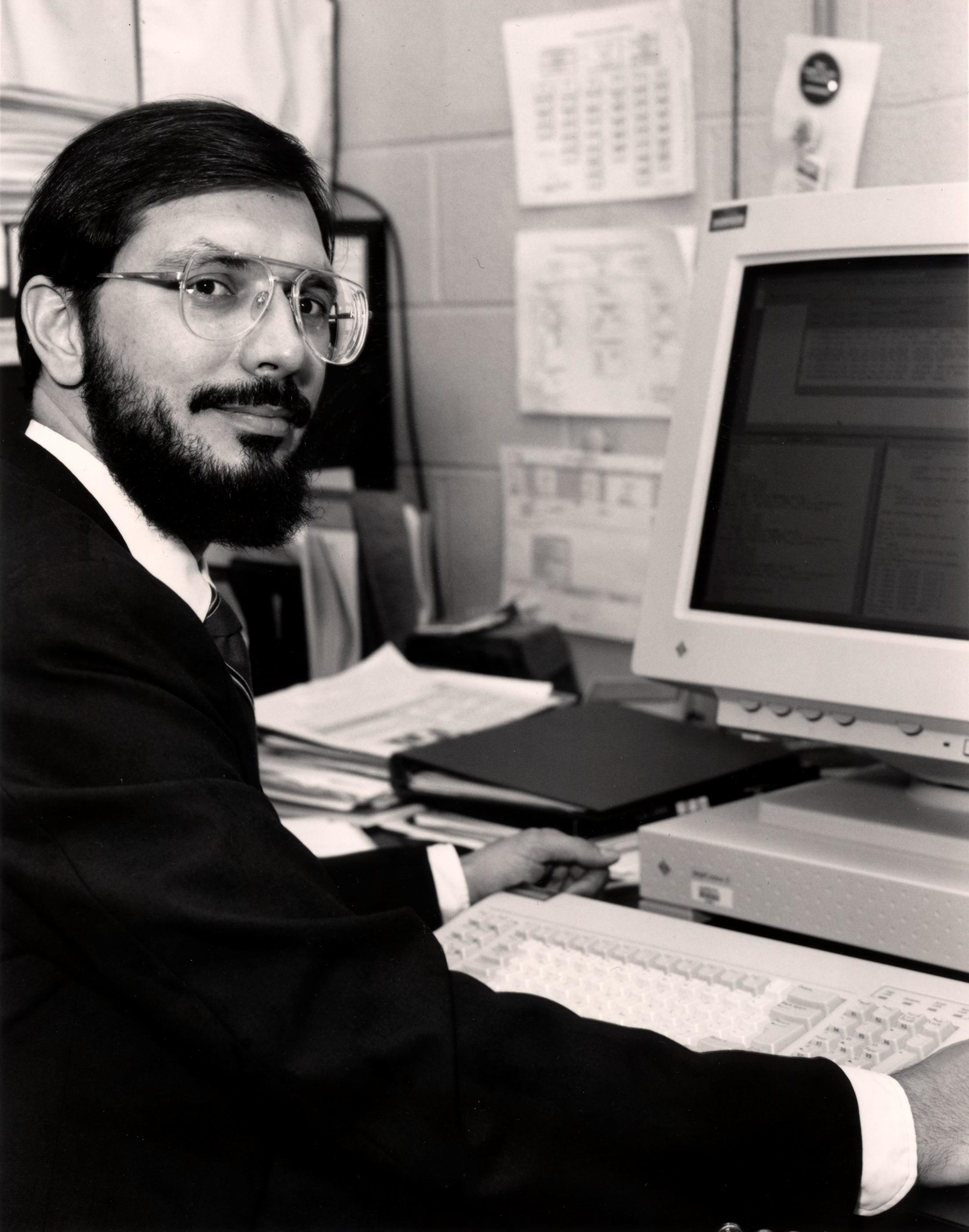 Dr. Russell Hulse, Princeton plasma physics laboratory.